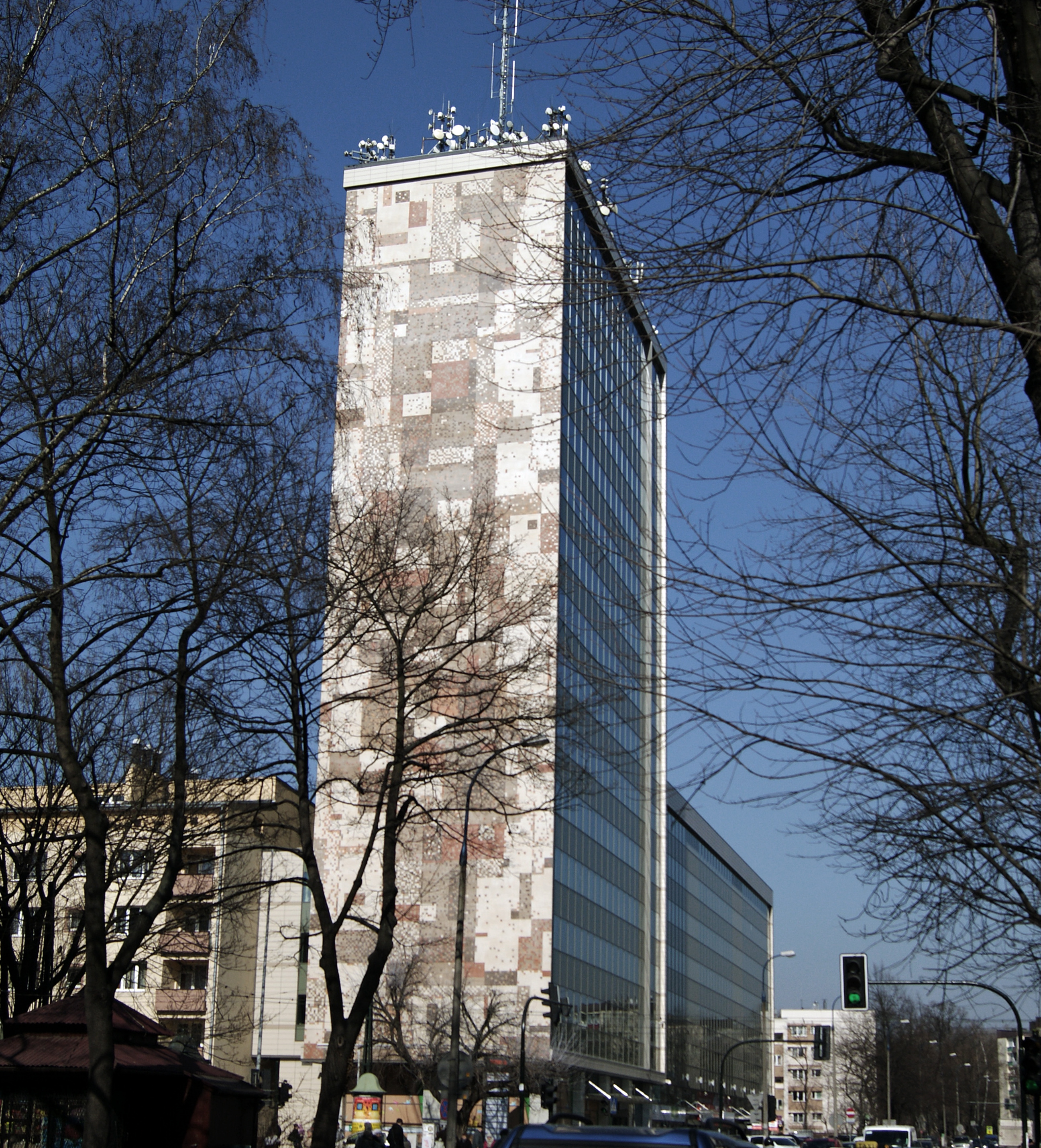 National Science Centre, 57 Krolewska street, Krakow, Poland